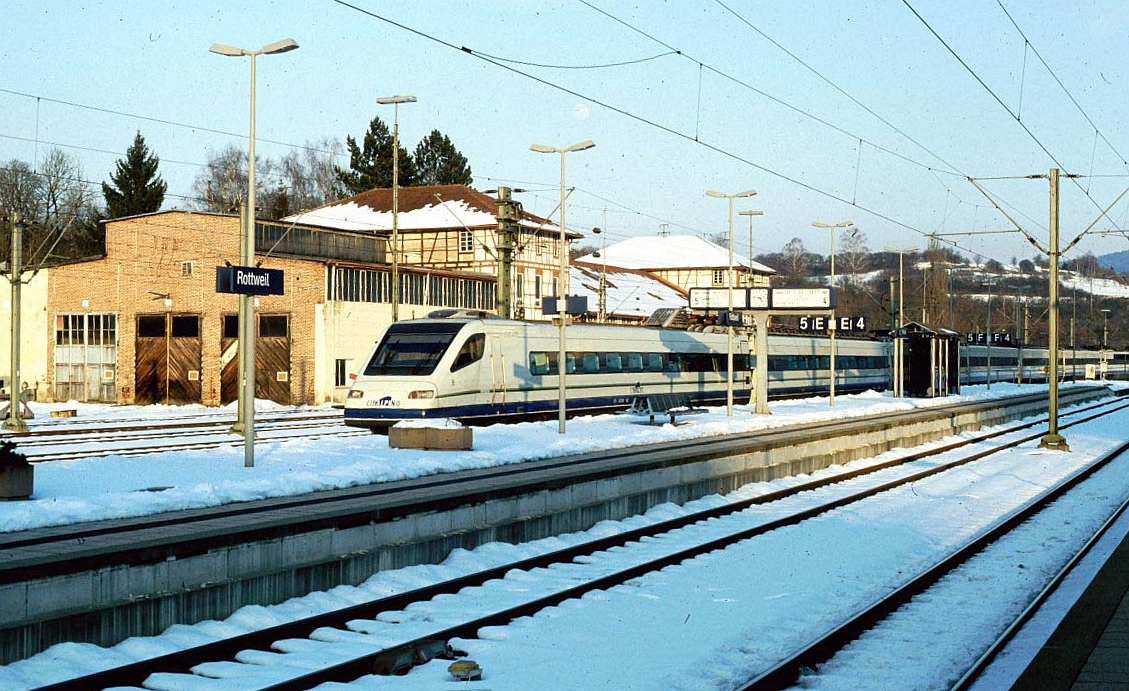 Cisalpino ETR470 unit in Rottweil.